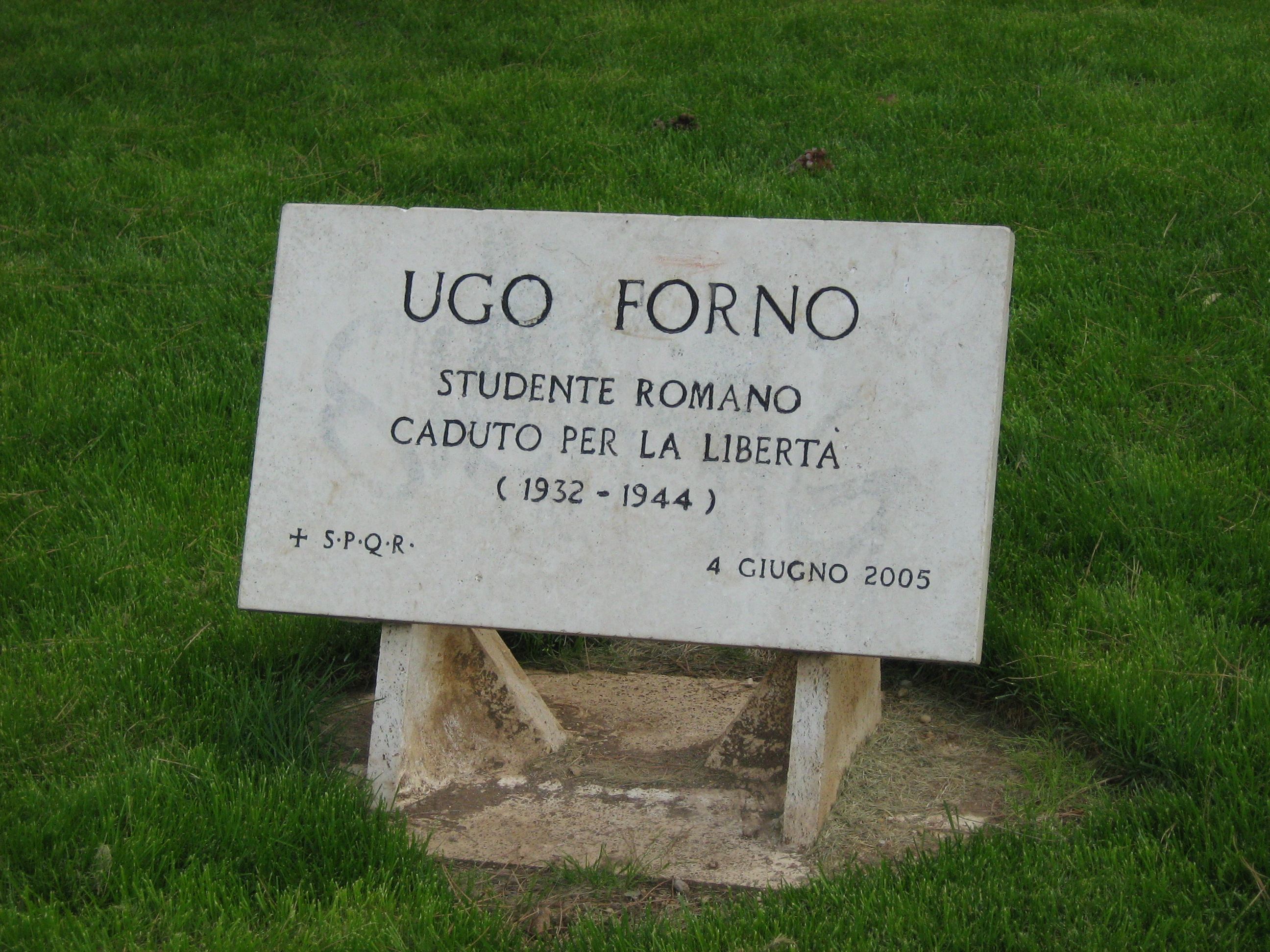 A plaque in honour of Ugo Forno in Virgiliano park in Rome.